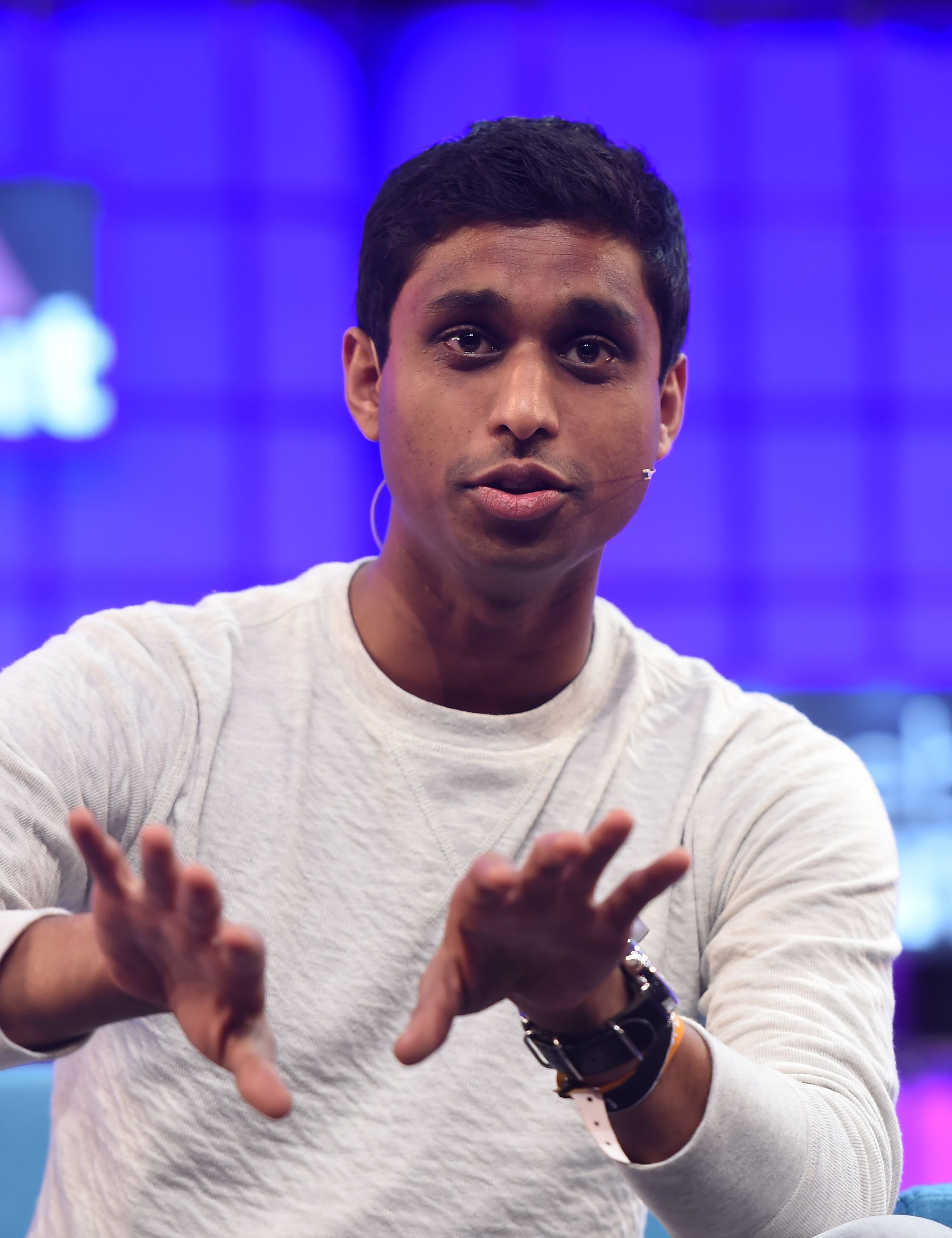 4 November 2015; Ankur Jain, Founder, Humin, on the Centre Stage during Day 2 of the 2015 Web Summit in the RDS, Dublin, Ireland. Picture credit: Stephen McCarthy / SPORTSFILE / Web Summit